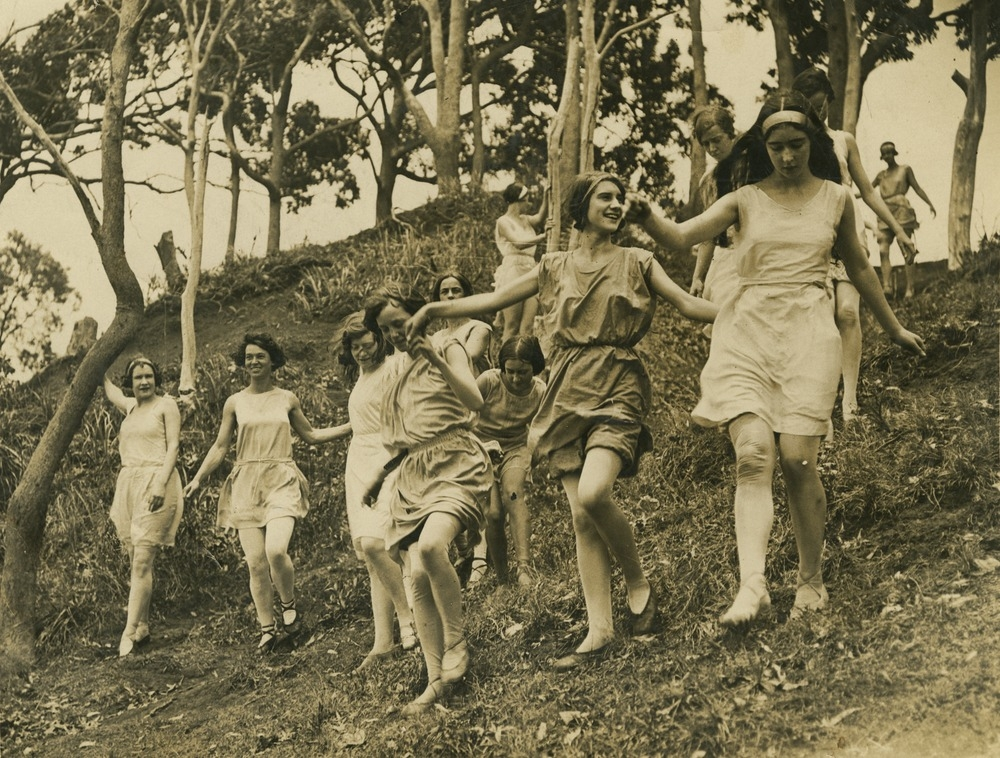 Creator: Unidentified. Location: Brisbane, Queensland. Description: Girls attending the first ever Summer School of Classical Ballet, to be held in Australia, organised by Marjorie Hollinshed at Scarborough. (Description supplied with photograph.) 12 young women can be seen holding hands walking down a bush hillside in toga like dance wear. Collection reference: OM76-03 Marjorie Lucas Papers and Photographs. Read more on our blog: View this image at the State Library of Queensland: Information about State Library of Queensland’s collection: You are free to use this image without permission. Please attribute State Library of Queensland.